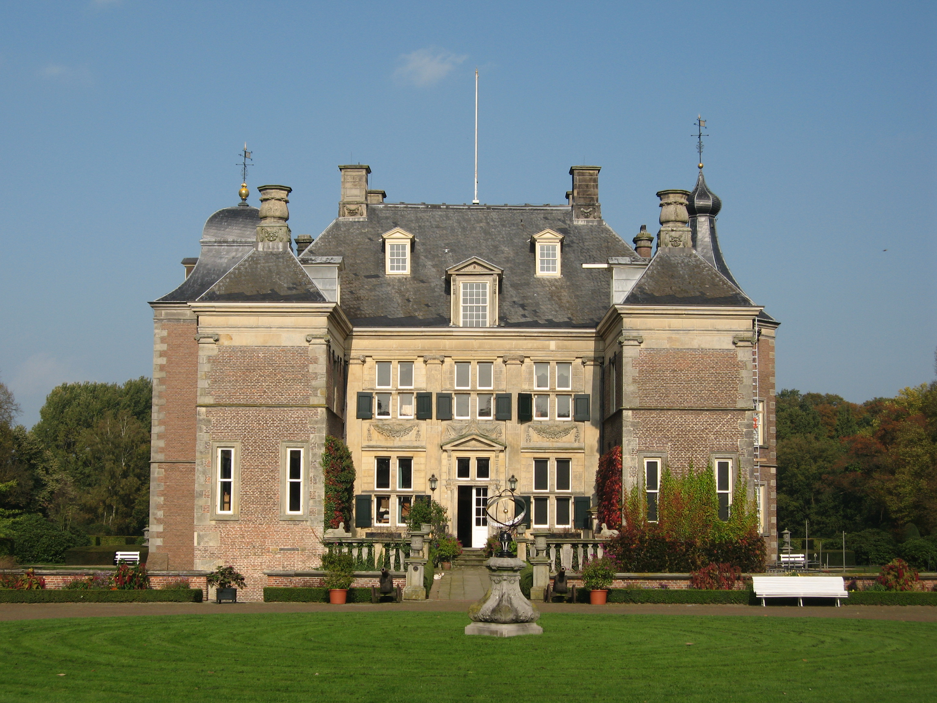 Weldam castle in Overrijssel